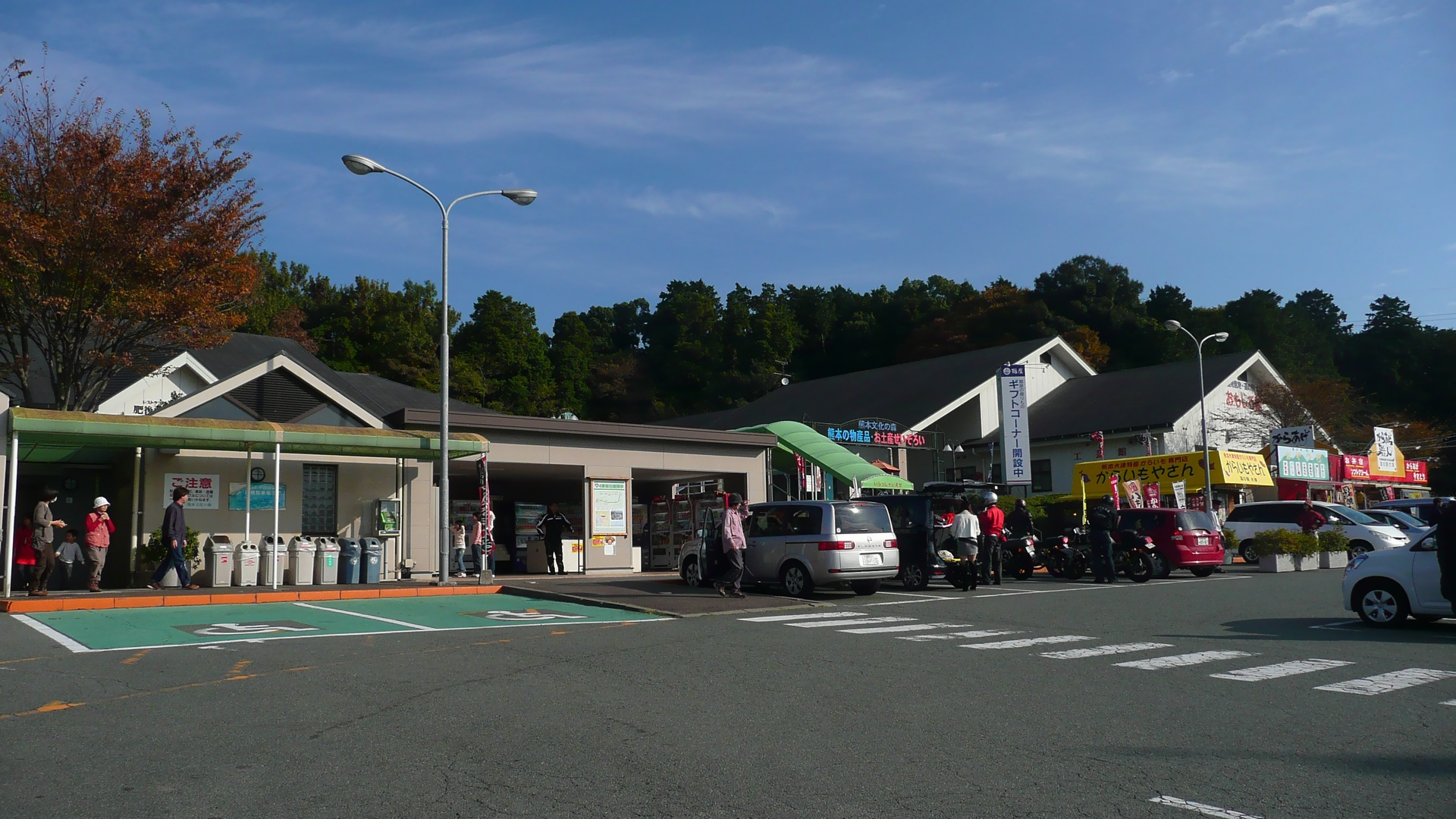 Michinoeki Ozu (Ozu Town, Kumamoto, Japan)